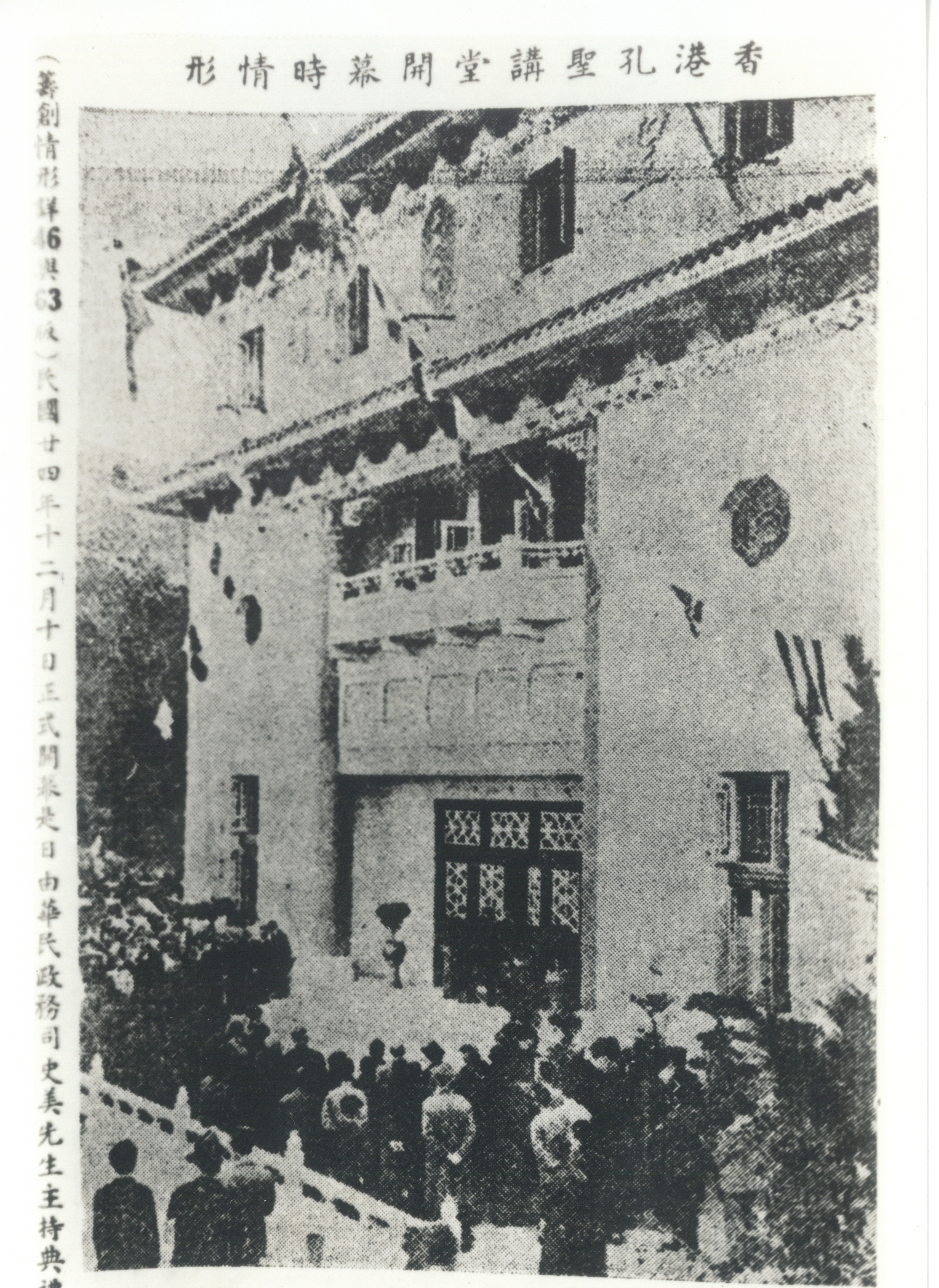 The opening ceremony of Confucius Hall in 1935